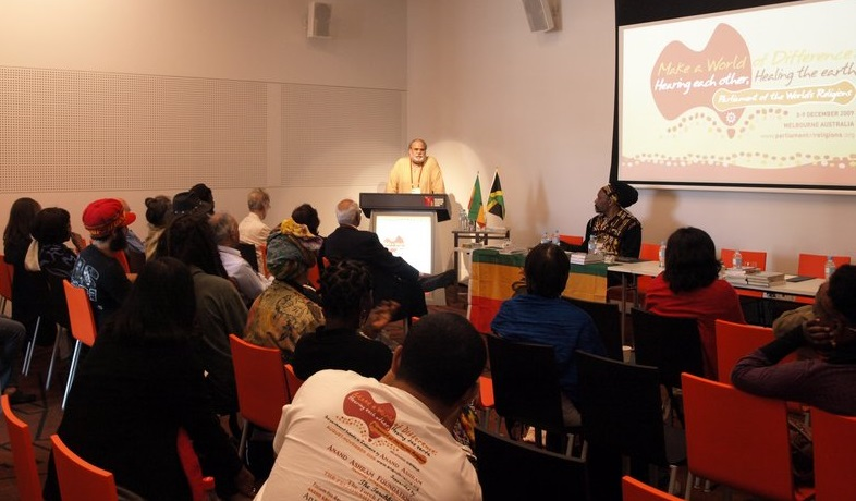 Swami Anand Krishna gave talks at Parliament of World's Religion, Melbourne - Australia